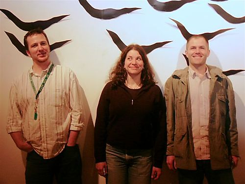 Redbird band (Left to right: Peter Mulvey, Kris Delmhorst, Jeffrey Foucault) taken on April 12, 2005.